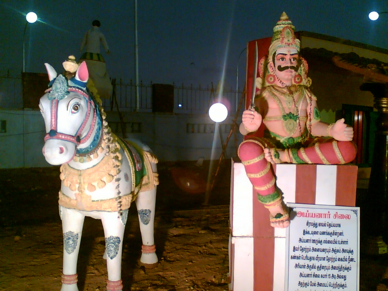 Photographer's caption: Opposite Marina beach, Neithal thidal, Chennai Sangamam Event. A cultural show making use of open spaces. Village deity Aiyanar with his horse.Sangamam: Aiyanar and his horse